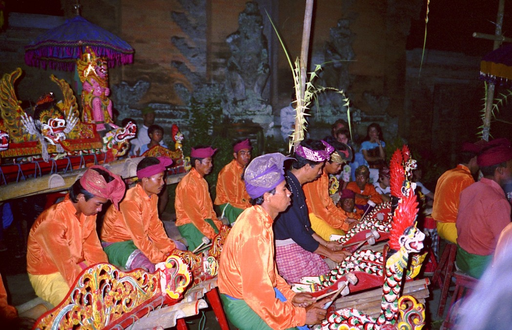 A performance of Gamelan jegog performed in Peliatan, Bali circa 1989. I was the photographer. -- Samuel Wantman 06:40, 17 August 2005 (UTC)